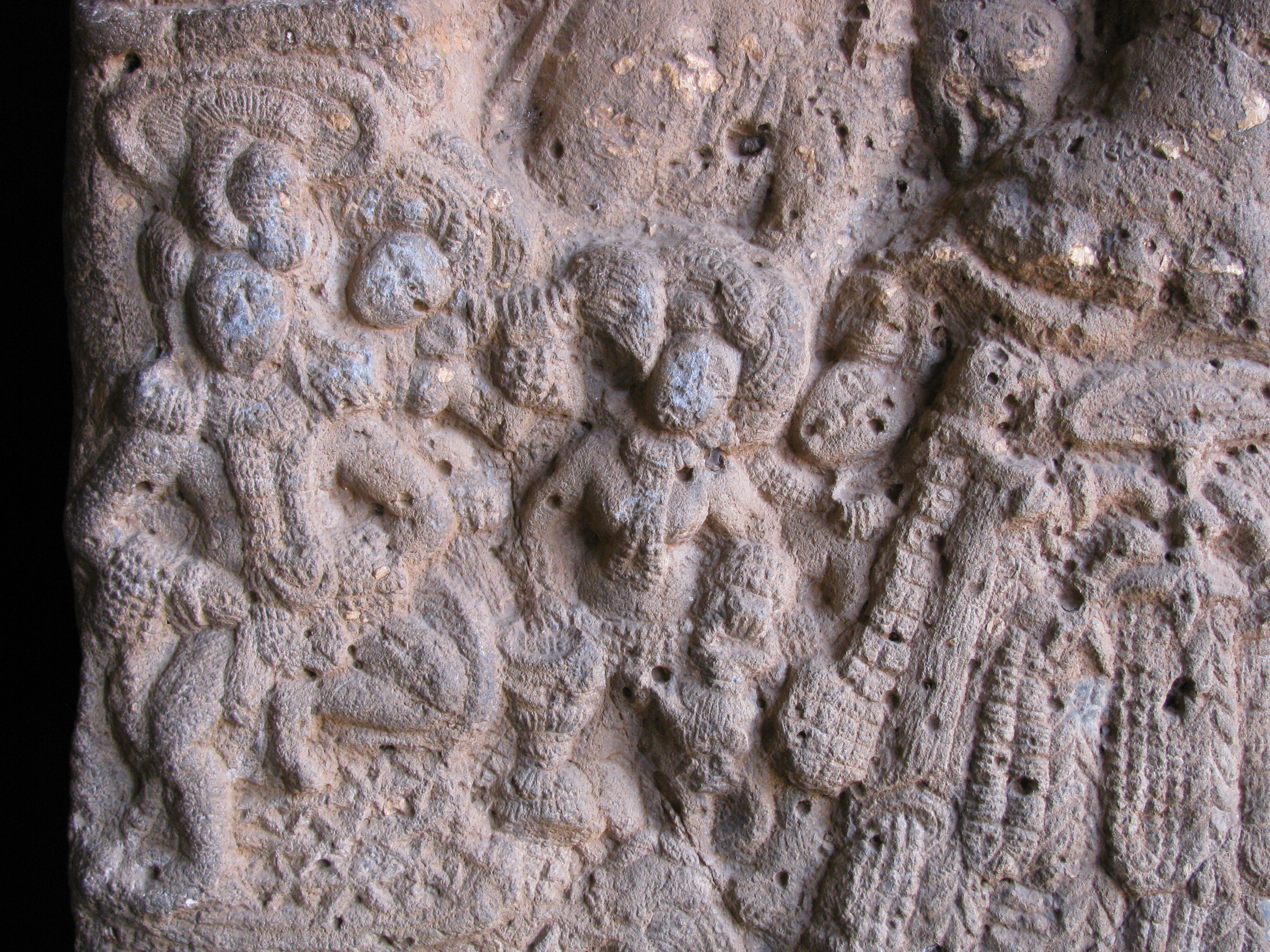 Stone carvings at Bhaje caves